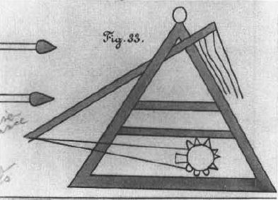 Muslim traction trebuchet (Hasan al-Ramah)